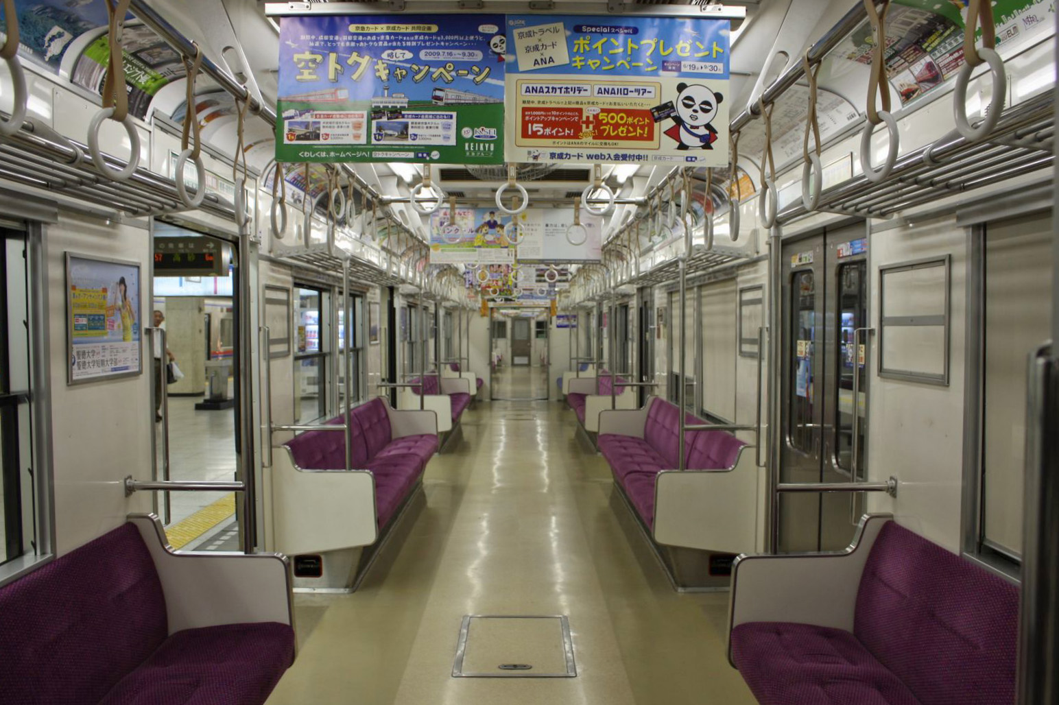 The interior of a refurbished Keisei Electric Railway 3500 series EMU